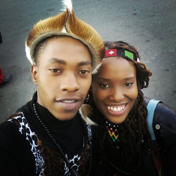 Zulu boy and Ndebele girl selfie This is an image of Cultural Fashion or Adornment from South Africa